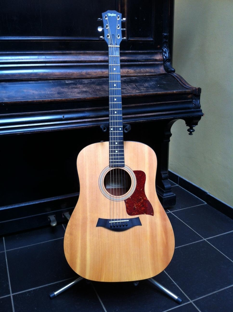 Taylor 110-E-GB Dreadnought, 2003